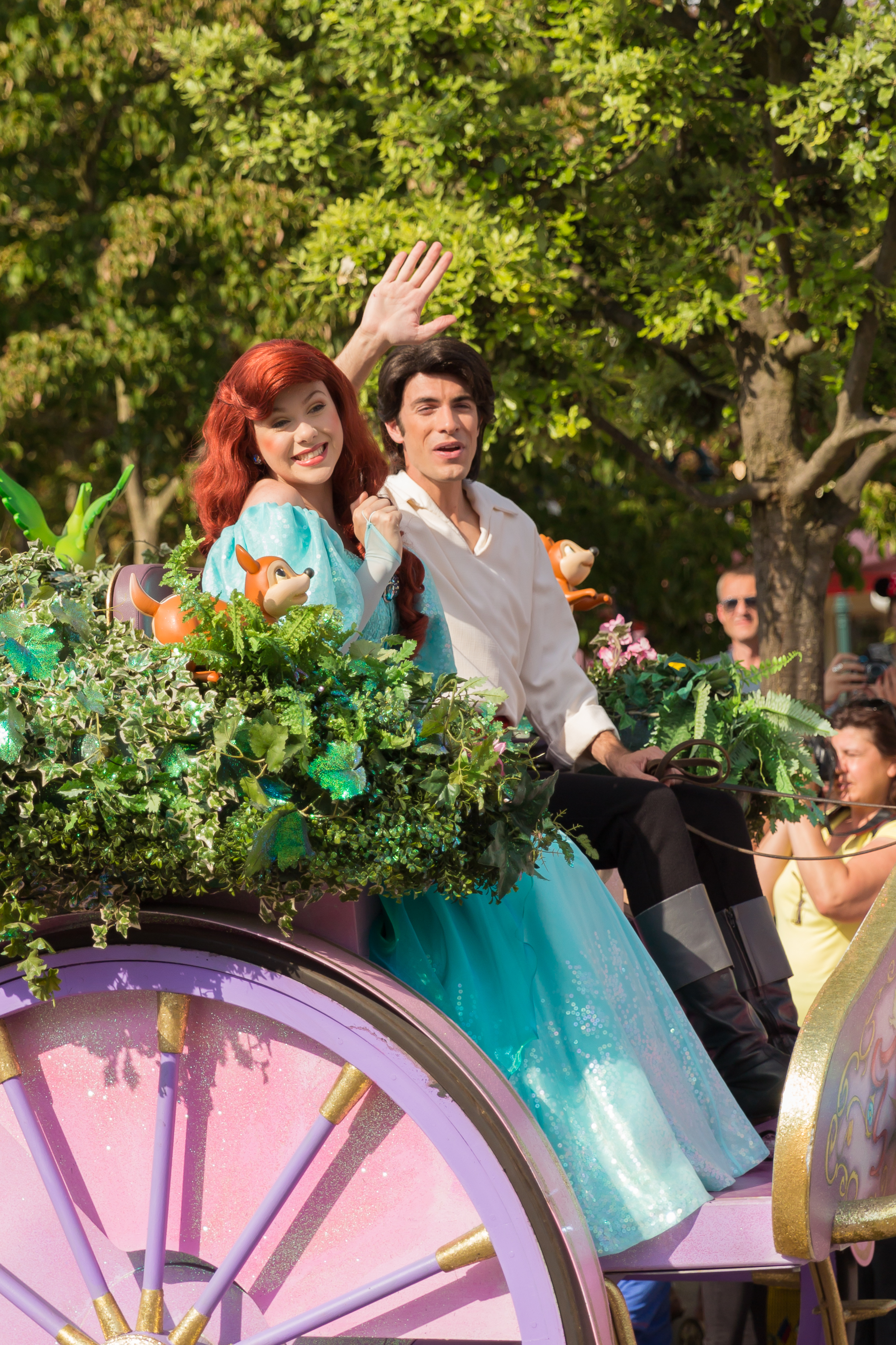 Ariel and her Prince in The Little Mermaid in the Disney Magic On Parade in Disneyland Paris.